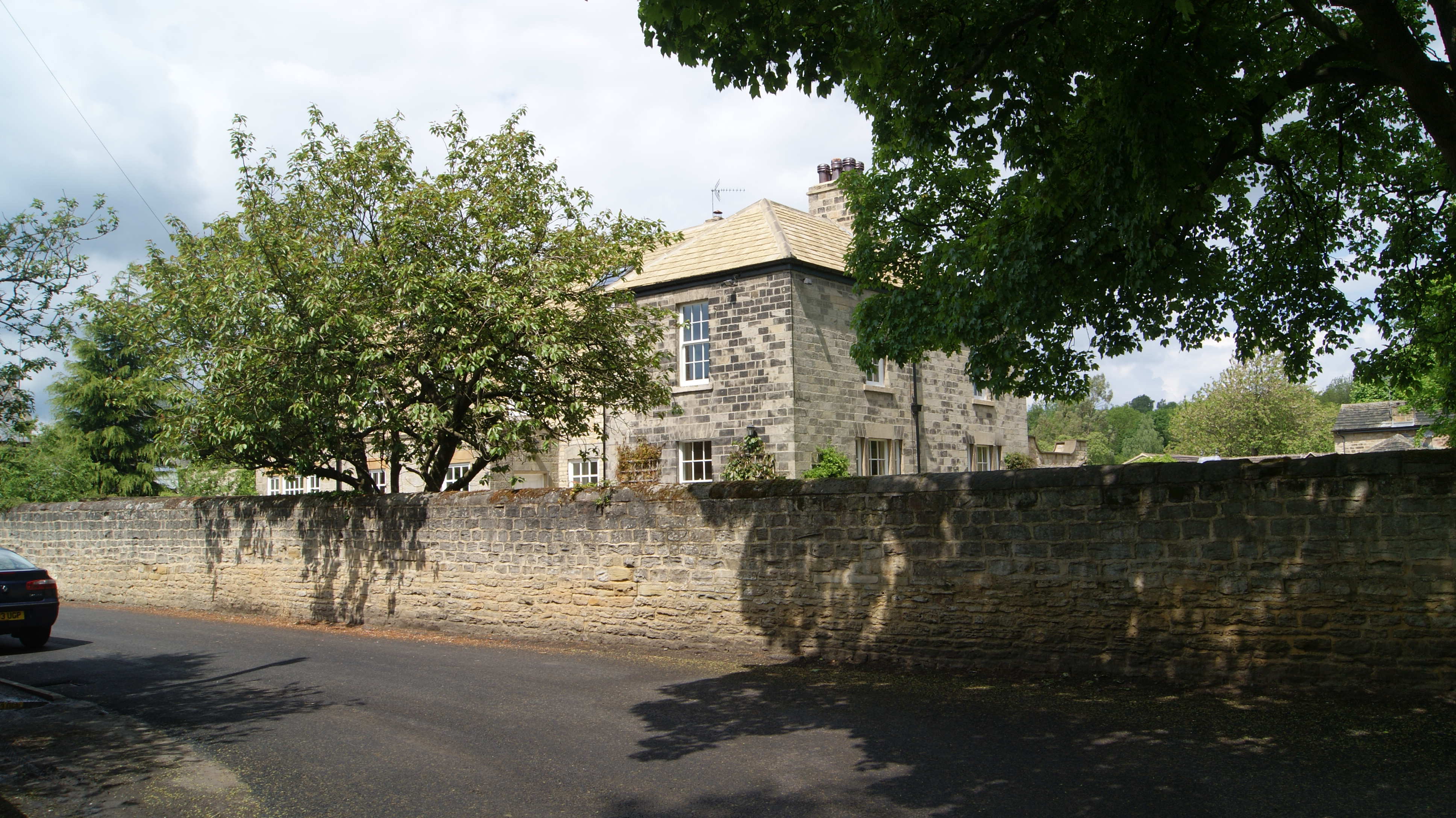 The old vicarage at St Oswald's Church, Collingham, West Yorkshire. The new vicarage is a smaller 1970s looking building directly opposite. Taken on the afternoon of Friday the 31st of May 2013.